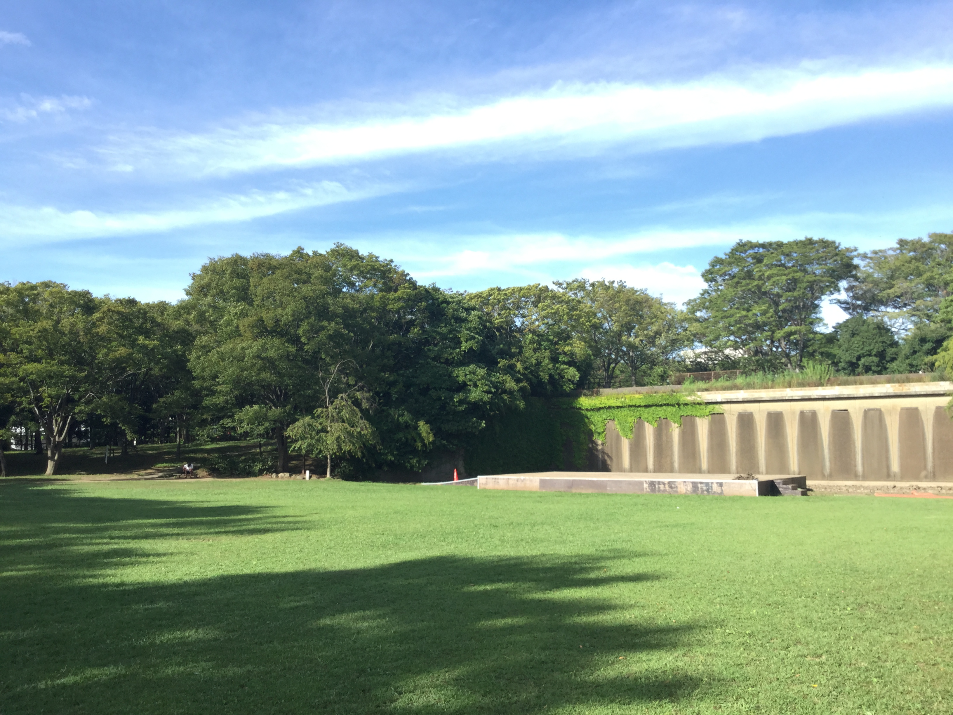 A park in Chigasaki city Kanagawa,Japan.